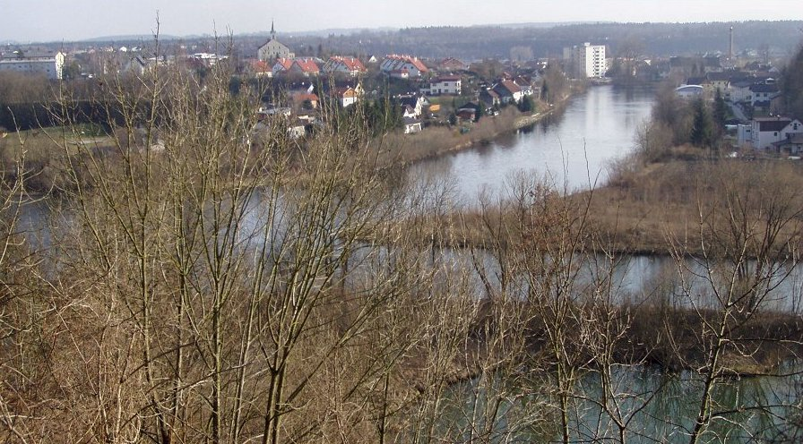 The Ager River (right) flowing into the Traun River.